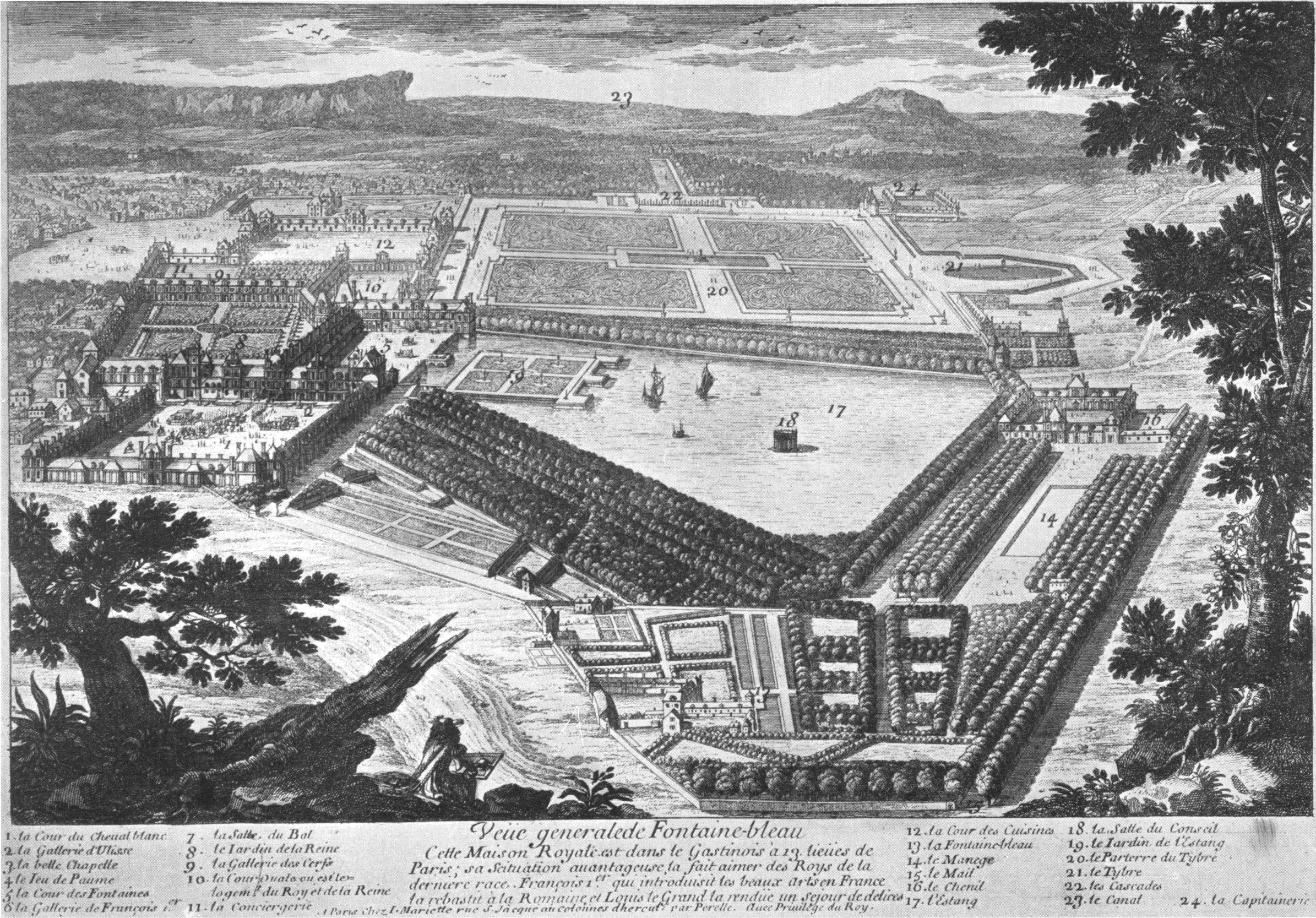 Drawing of the château de Fontainebleau